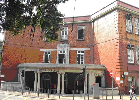 The entrance of King's College, with neo classical portico